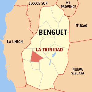 Map of Benguet showing the location of La Trinidad